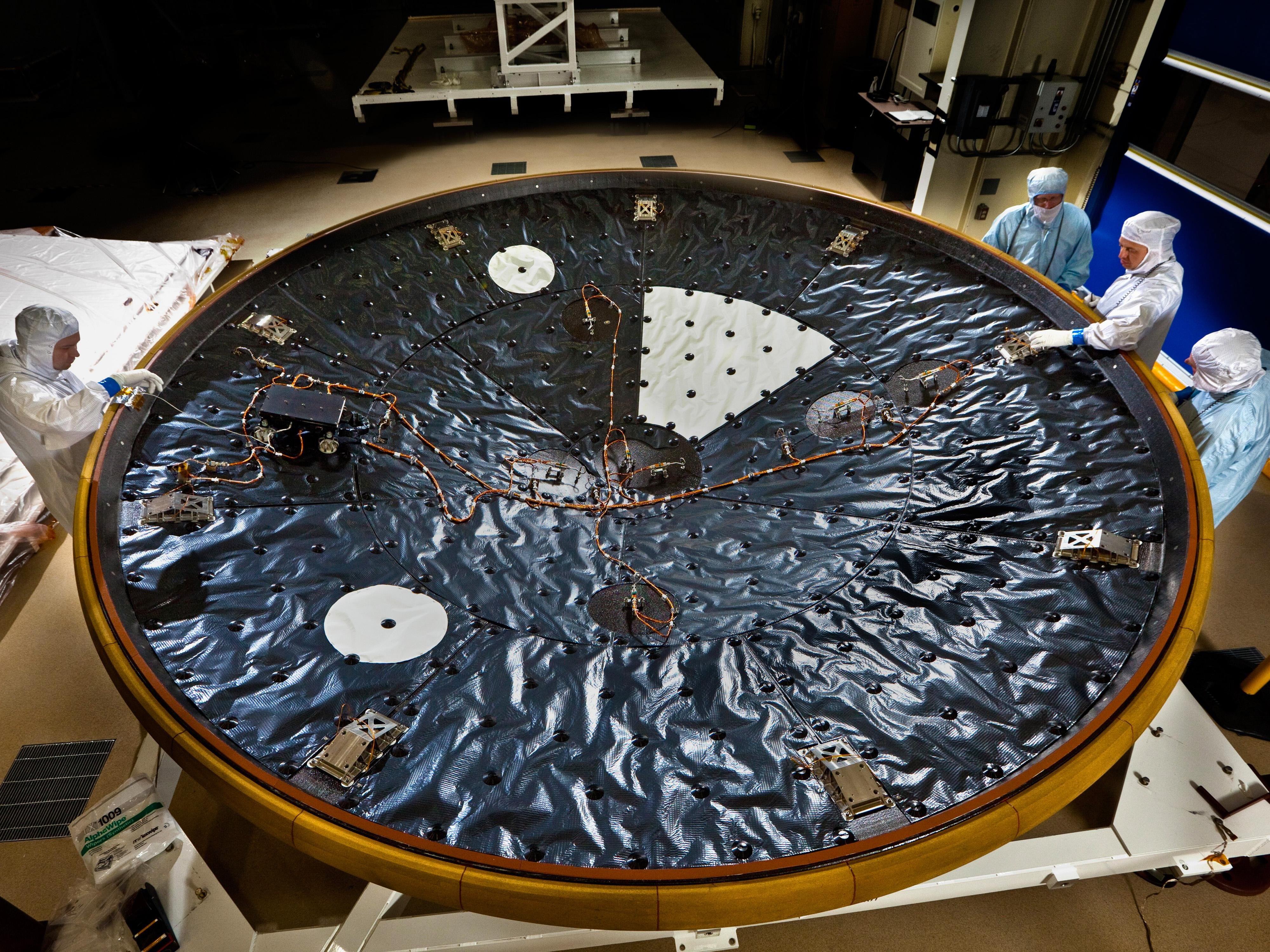 Lockheed Martin installed the Langley-built MEDLI on the backside of MSL's aeroshell/heat shield. At almost 15 feet in diameter the aeroshell is the biggest ever built for a planetary mission. MEDLI is made up of two kinds of instruments (with seven sensors of each kind) that are installed in 14 places on heat shield. It will gather engineering data on aeroheating by using sensor plugs and pressure ports embedded into holes drilled in the spacecraft's aeroshell.